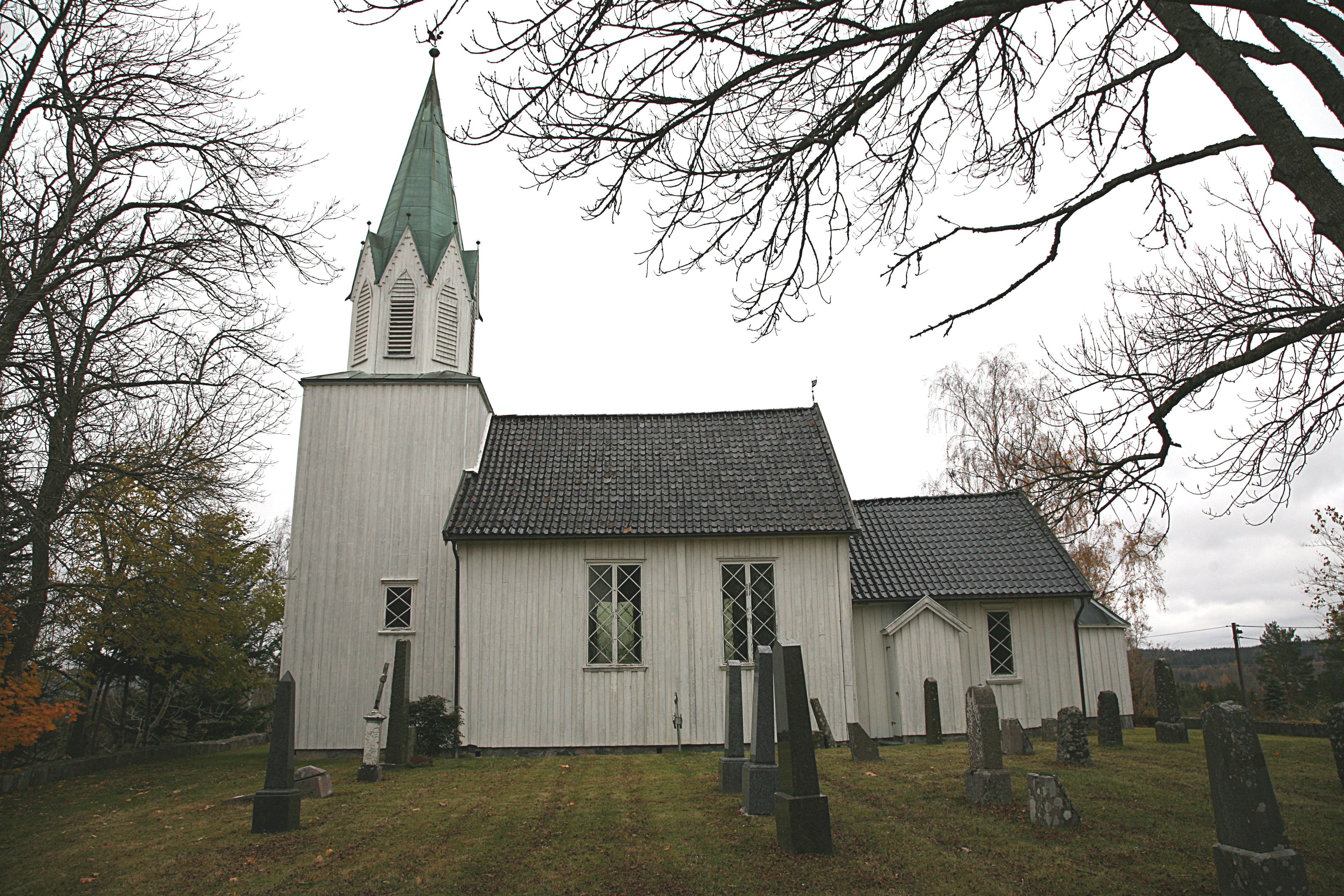 Tomter kirke. Church in Hobøl, Østfold, Norway.